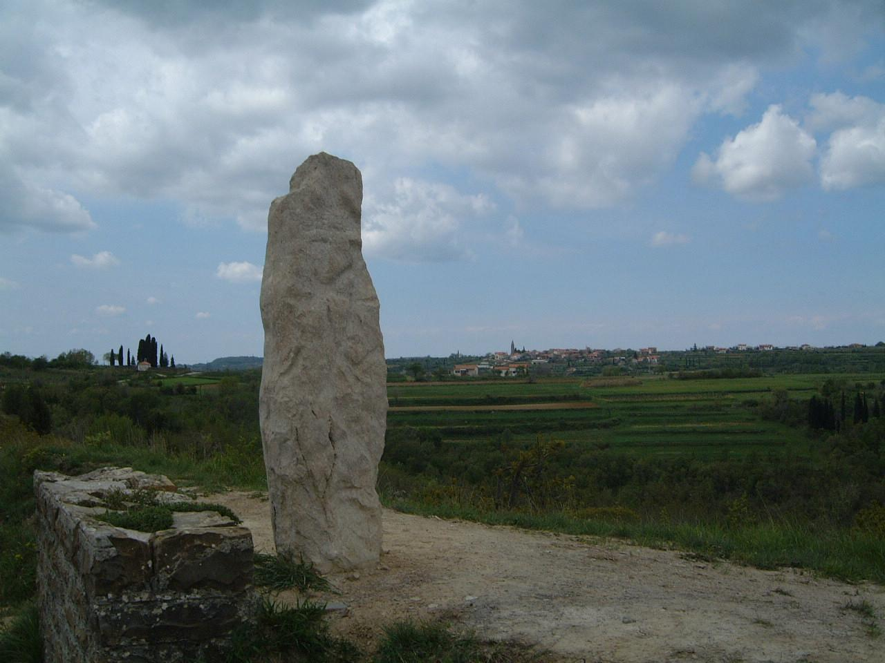 Krkavški kamen - Krkavče stone. The menhir at Krkavče (southwestern Slovenia) probably dates to the first centuries of the Common Era. There are two reliefs of solar beings on each side of the monolith: the eastern relief has been hypothesised to represent the Roman god Mithras, whereas the western to represent Christ.[1] photo:Ziga 11:58, 16 April 2007 (UTC)